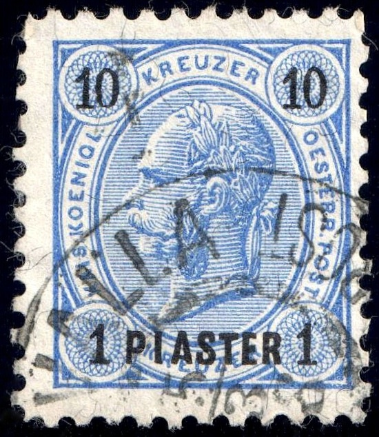 Postage stamp of the Austro-Hungarian Empire for usage by Levant post offices, 1 Piaster on 10 Kreuzer blue, used in Cavalla. Catalogue: Sc. 23, Mi. 23 Valid for postage to 30.9.1900